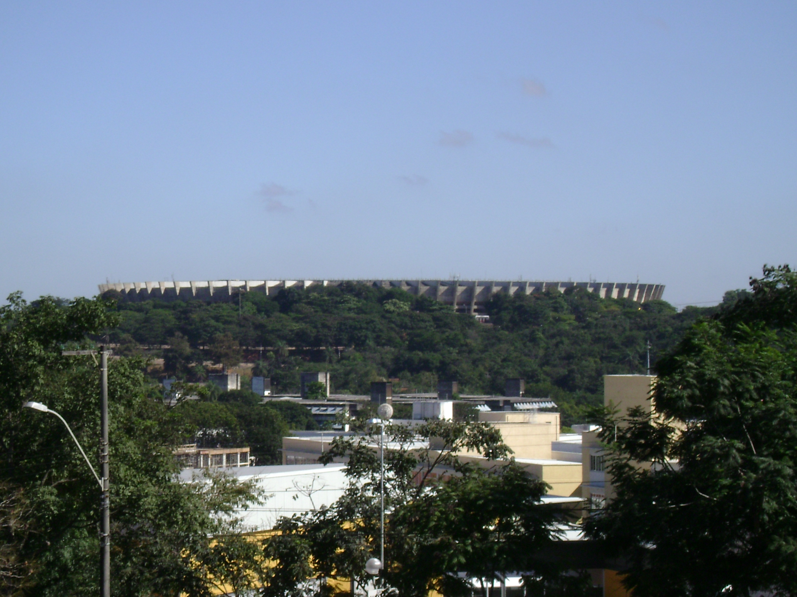 Mineirão sight by Colégio Militar de Belo Horizonte, in Minas Gerais, Brazil.